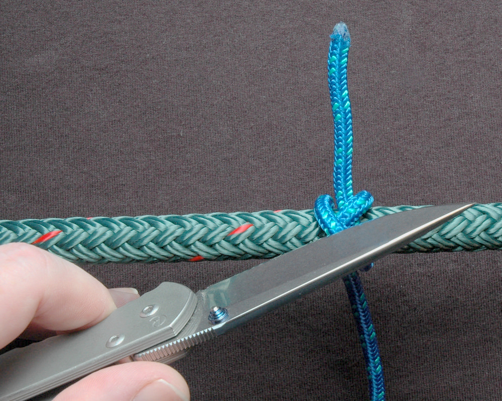 Proper method of releasing (cutting) a Constrictor knot. (For the curious, the knife is a Chris Reeve small Sebenza.)